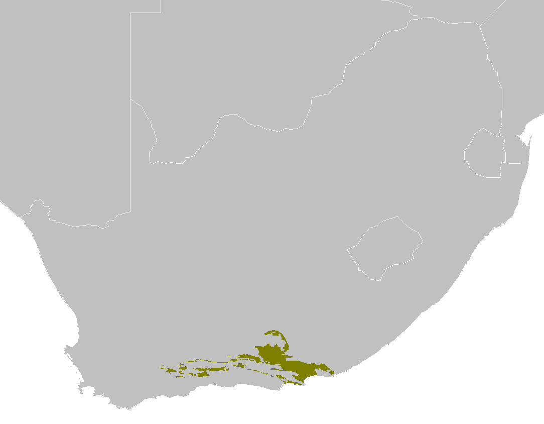 The Albany thickets ecoregion